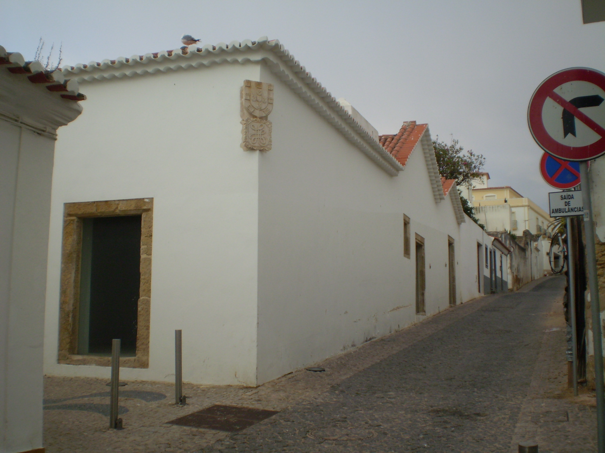 Armazem do Espingardeiro building, in Lagos, Portugal, after the 2004 restoration.